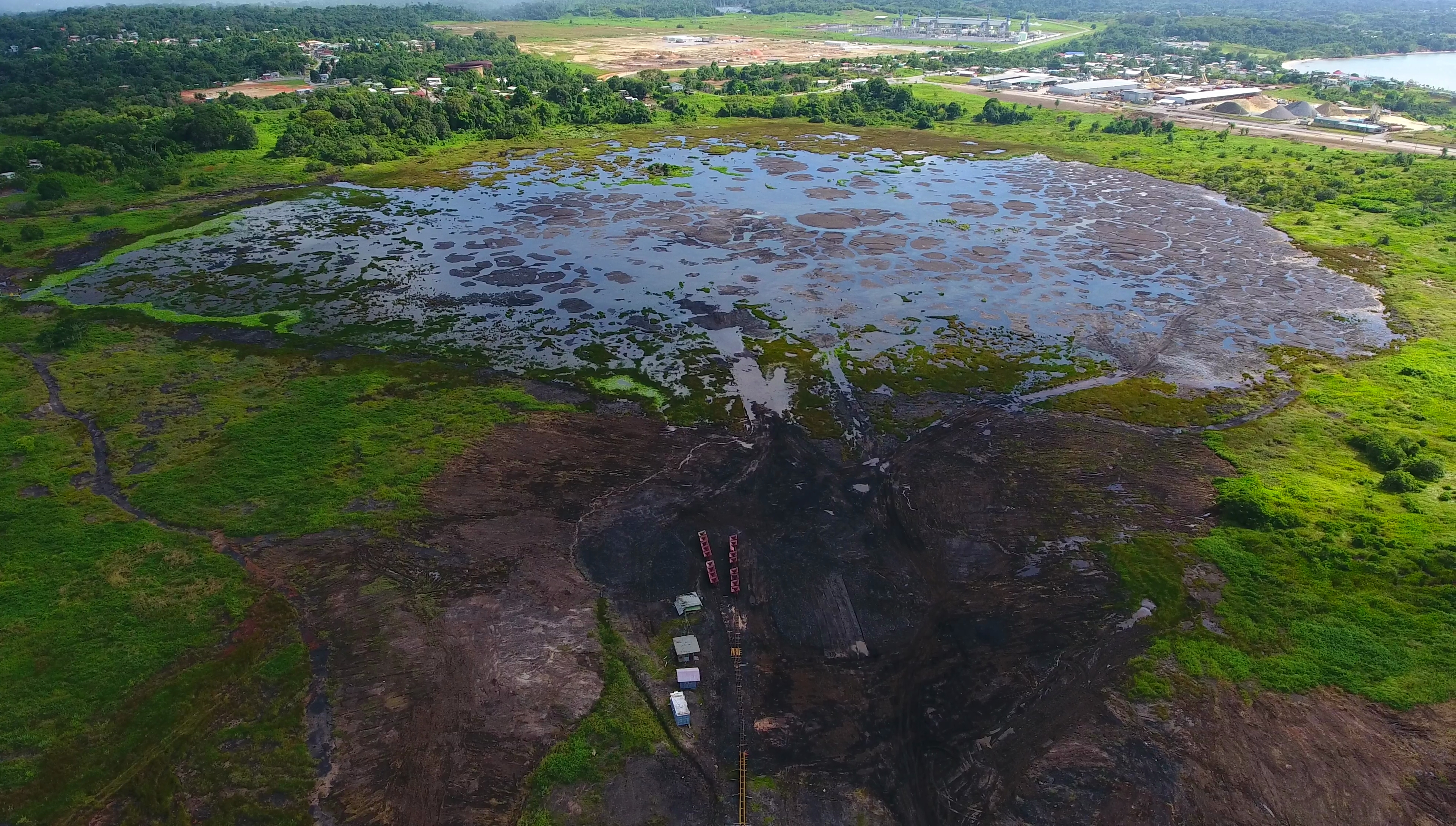 La Brea Pitch Lake, La Brea, Siparia, Trinidad and Tobago. Photo taken as part of the Southern Trinidad Aerial Photo Project, a small project sponsored by WMDE. Drone used: DJI Phantom 4. Snapshot taken from video footage via VLC.